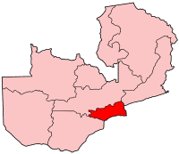 Map of Zambia showing Lusaka province.